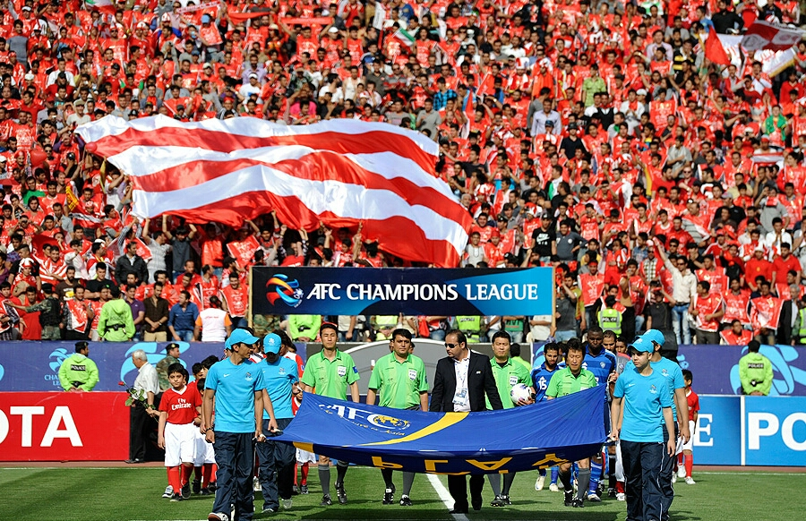 2012 AFC Champions League - Persepolis - Al-Hilal - Azadi Stadium